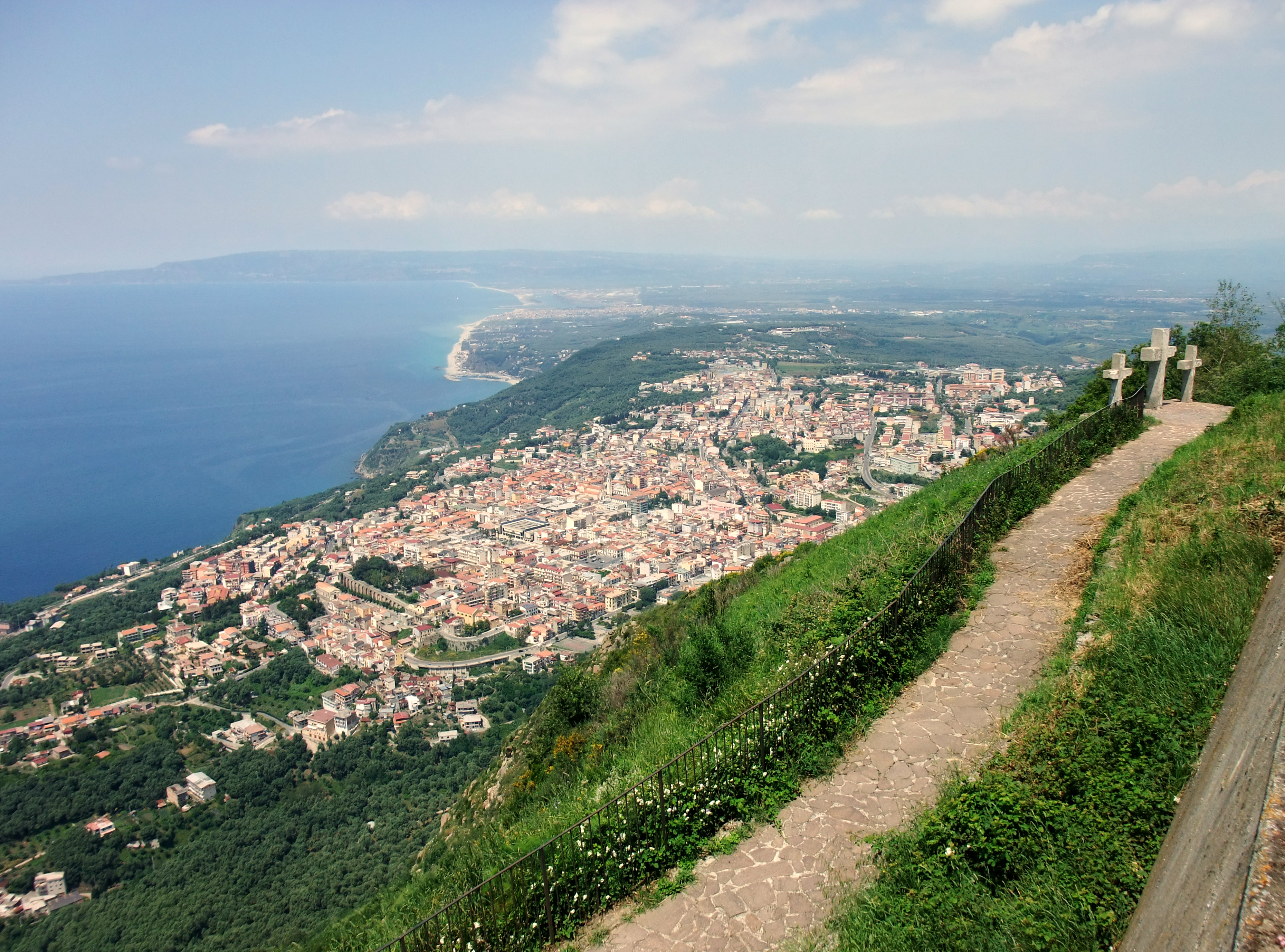 Calabria is the southernmost region of the Italian peninsula. Peak of Monte Sant'Elia (575 m), view on Palmi.